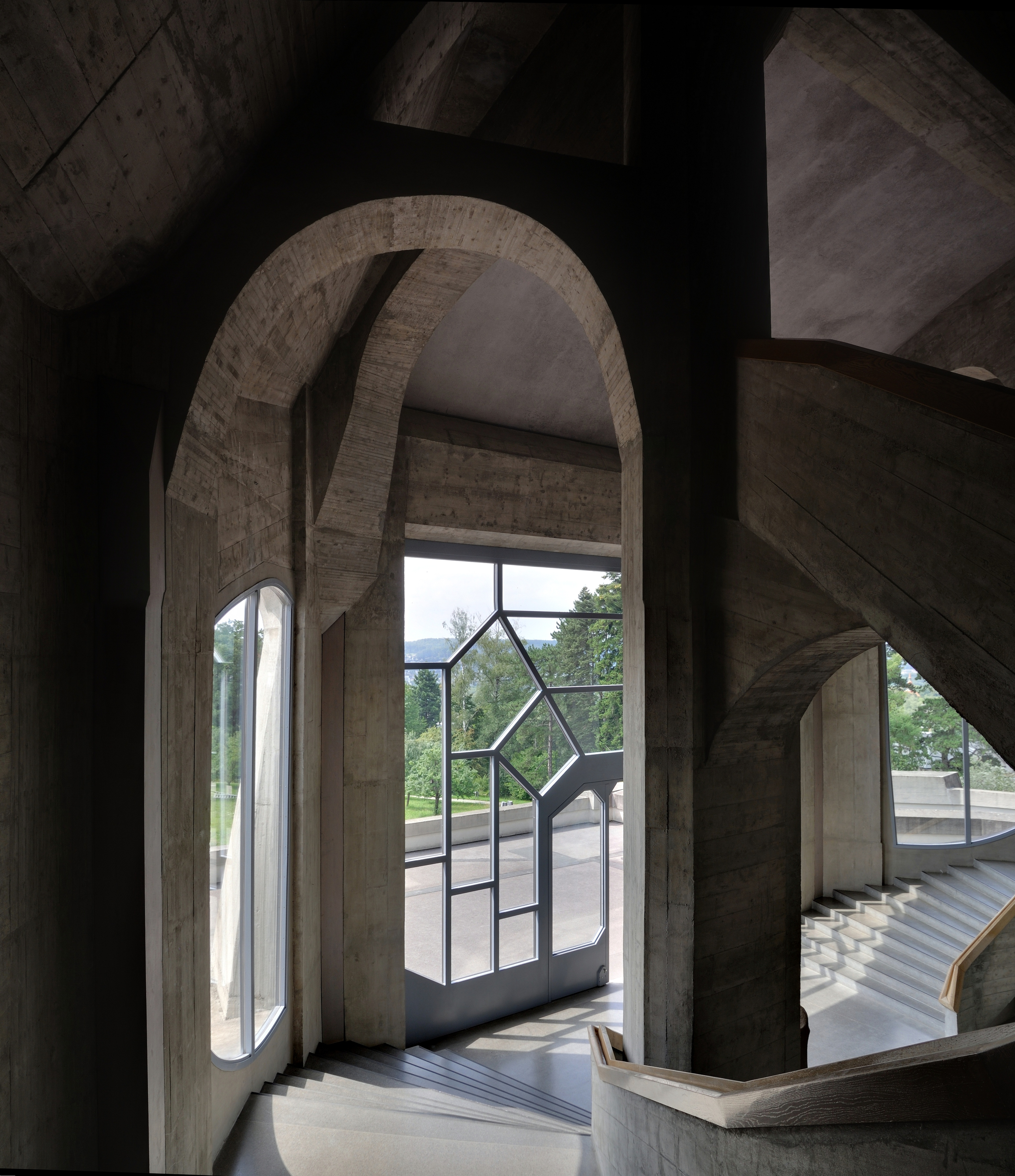 Goetheanum: western staircase